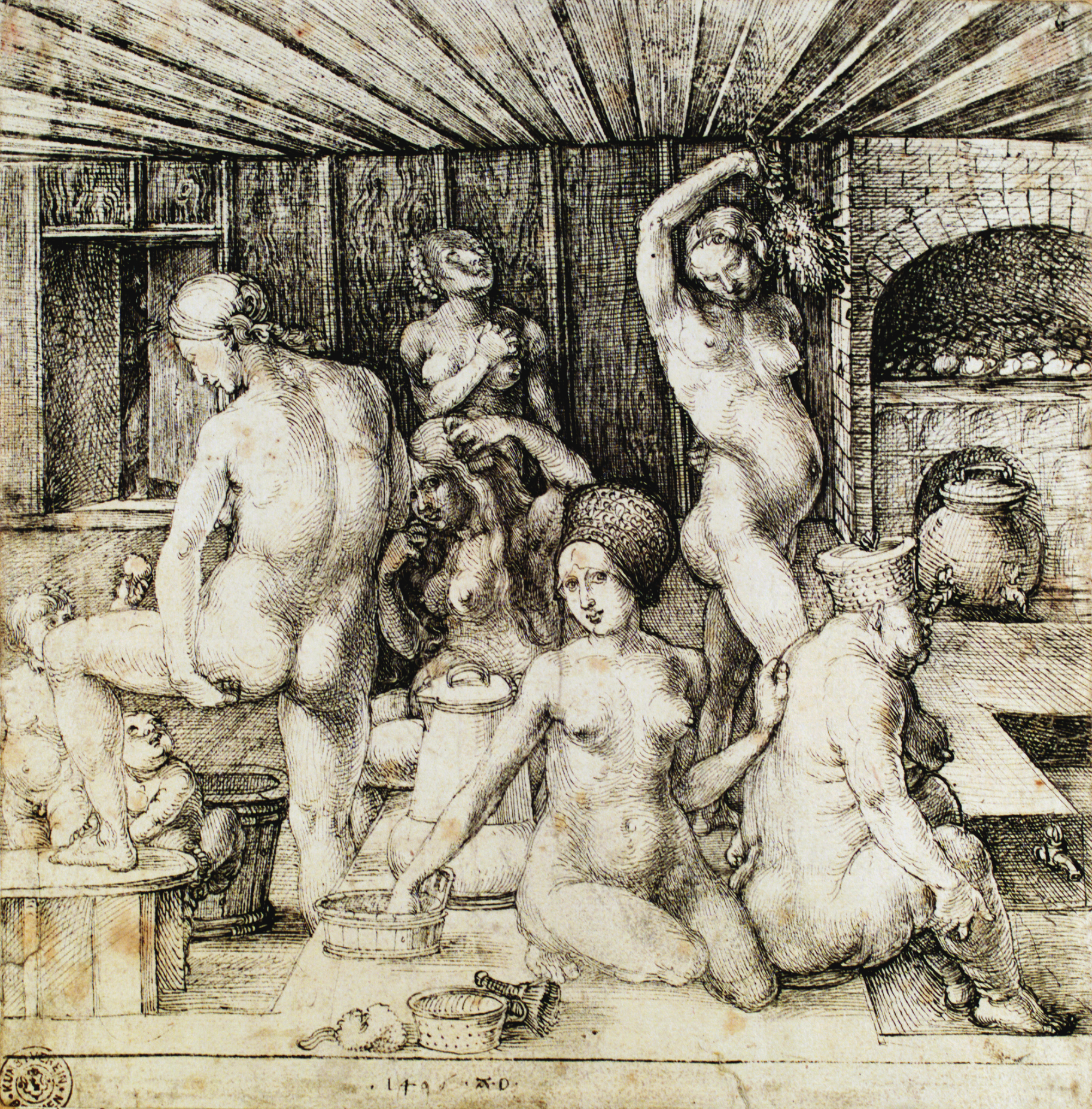 "Frauenbad" (Women's Bath) by Albrecht Dürer.